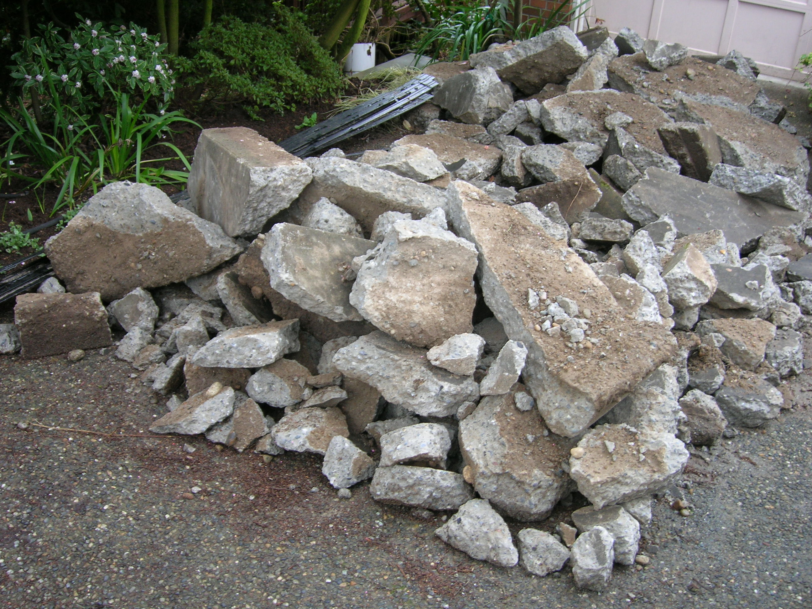 This was a much larger pile of concrete. here is what is left after finishing the back and front terrace. i031007 204